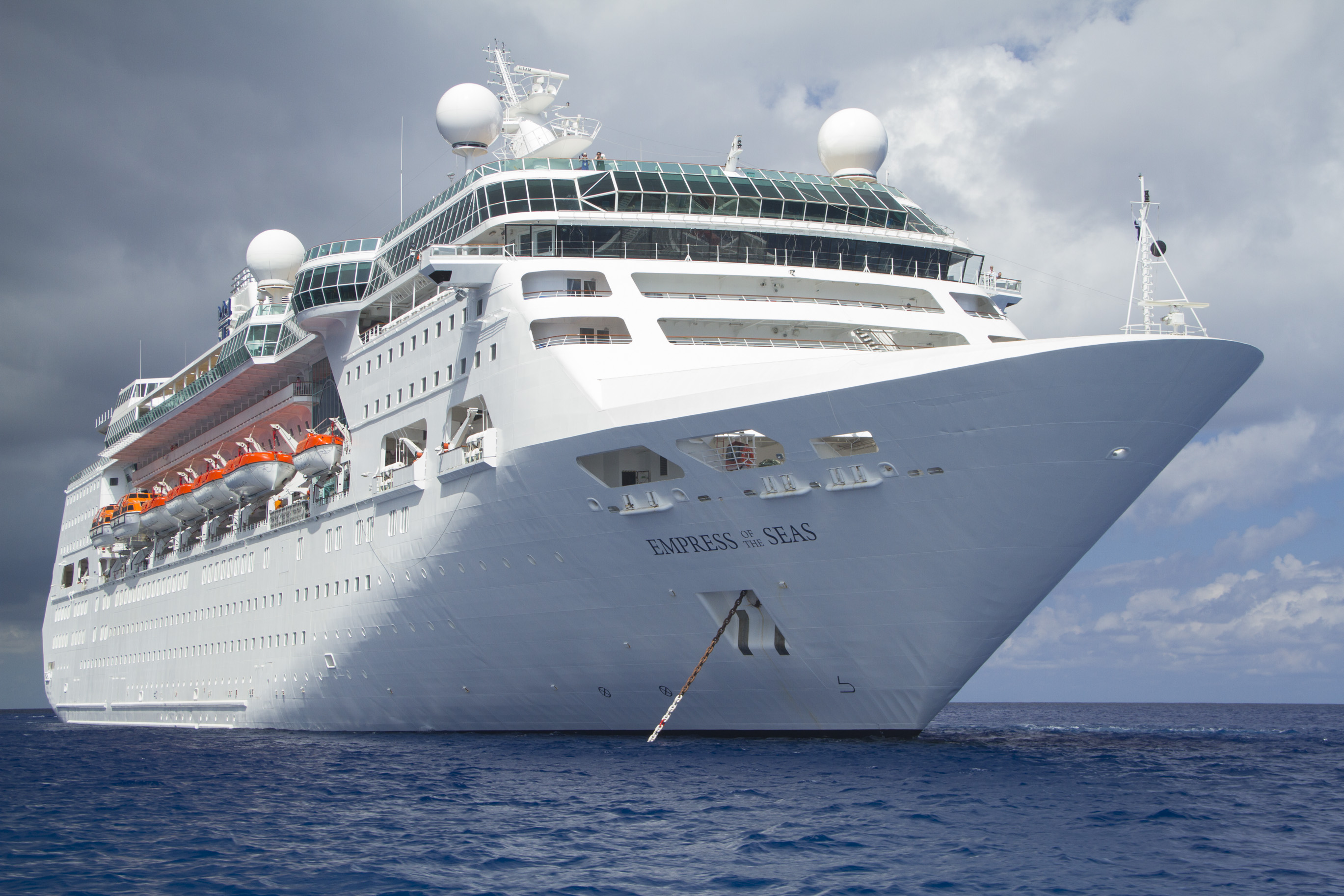 MS "Empress of the Seas" in Grand Cayman on 05/30/16.